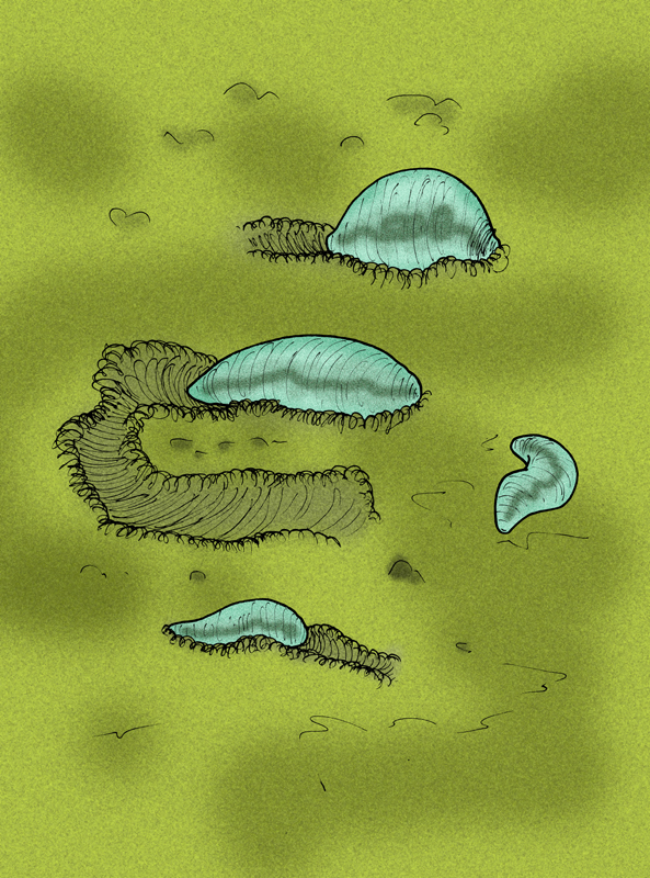 Restoration of the ur-bilaterian candidate, Ikaria wariootia, from Ediacaran South Australia